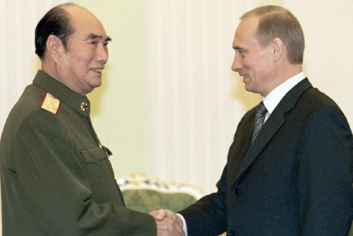 THE KREMLIN, MOSCOW. President Putin with Zhang Wannian, Vice-Chairman of China's Central Military Commission.